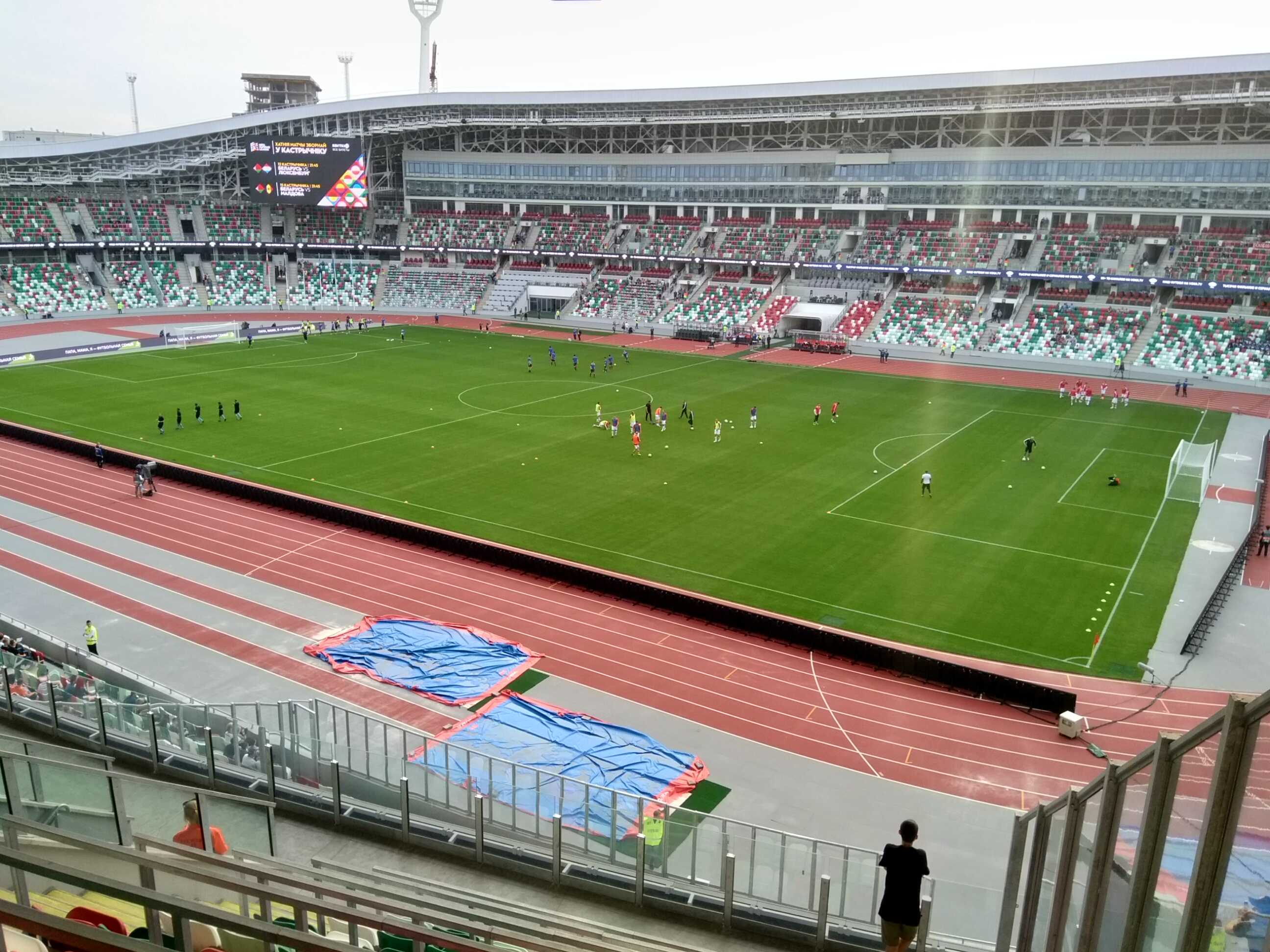 Interior view of rebuilt Dynamo Stadium (Minsk, Belarus) before UEFA Nations League match Belarus — San-Marino (08.09.2018).